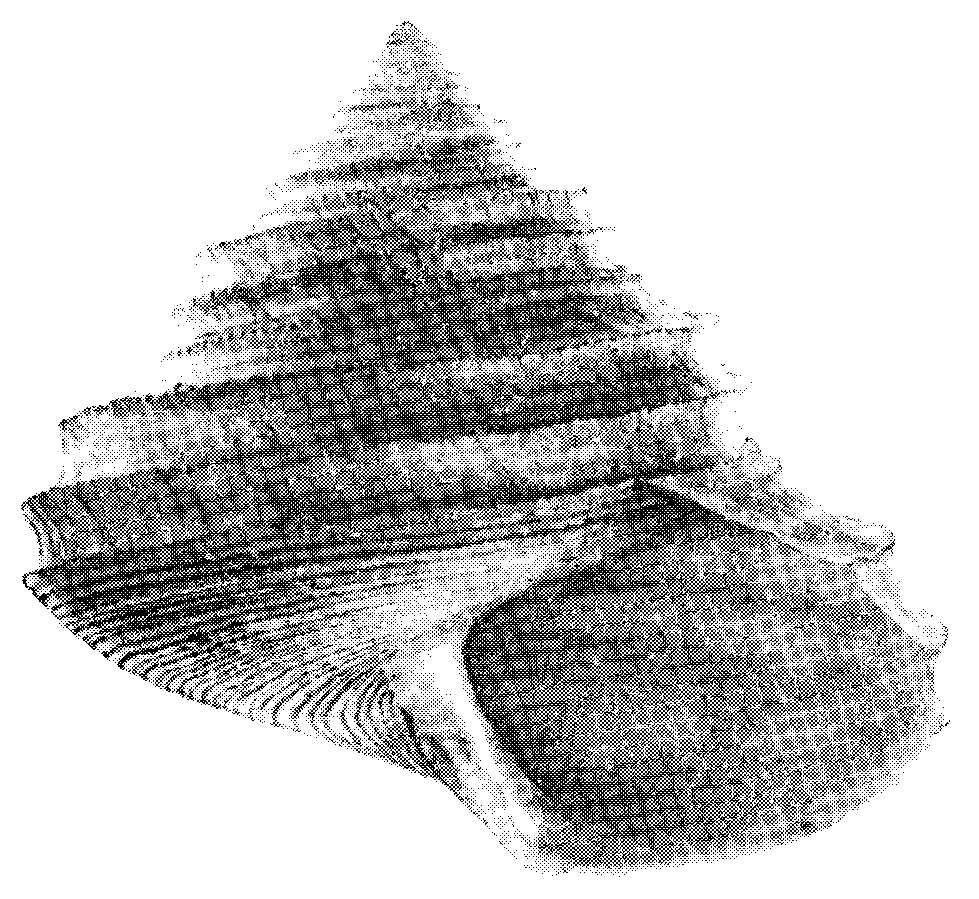 Drawing of the apertural view of the shell of Otukaia kiheiziebisu (Otuka, 1939) (synonym: Calliostoma kiheiziebisu)